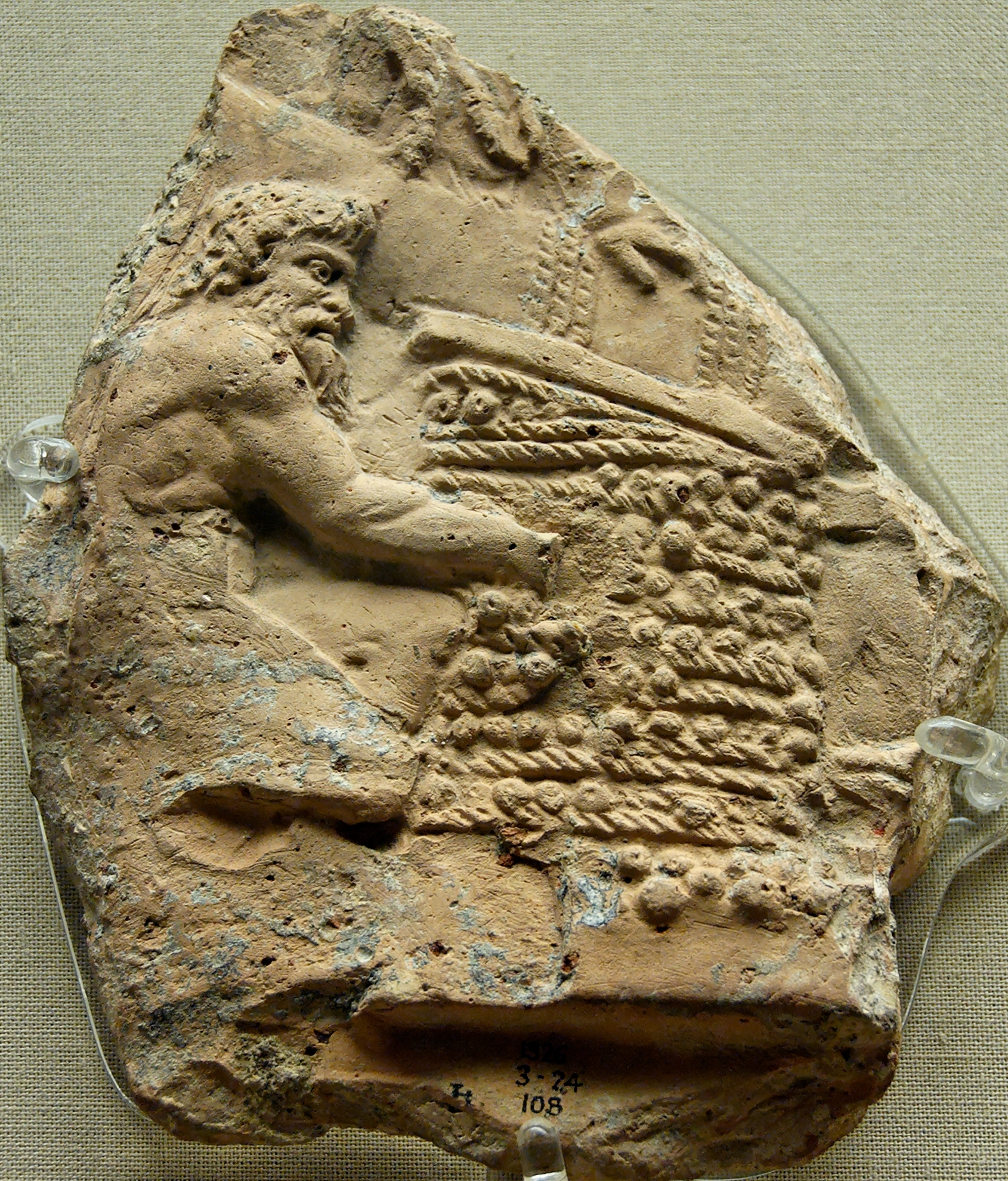 Satyr working a wine press consisting of a pile of round wicker-work mats. Fragmentary terracotta relief, Roman artwork, 1st century AD.